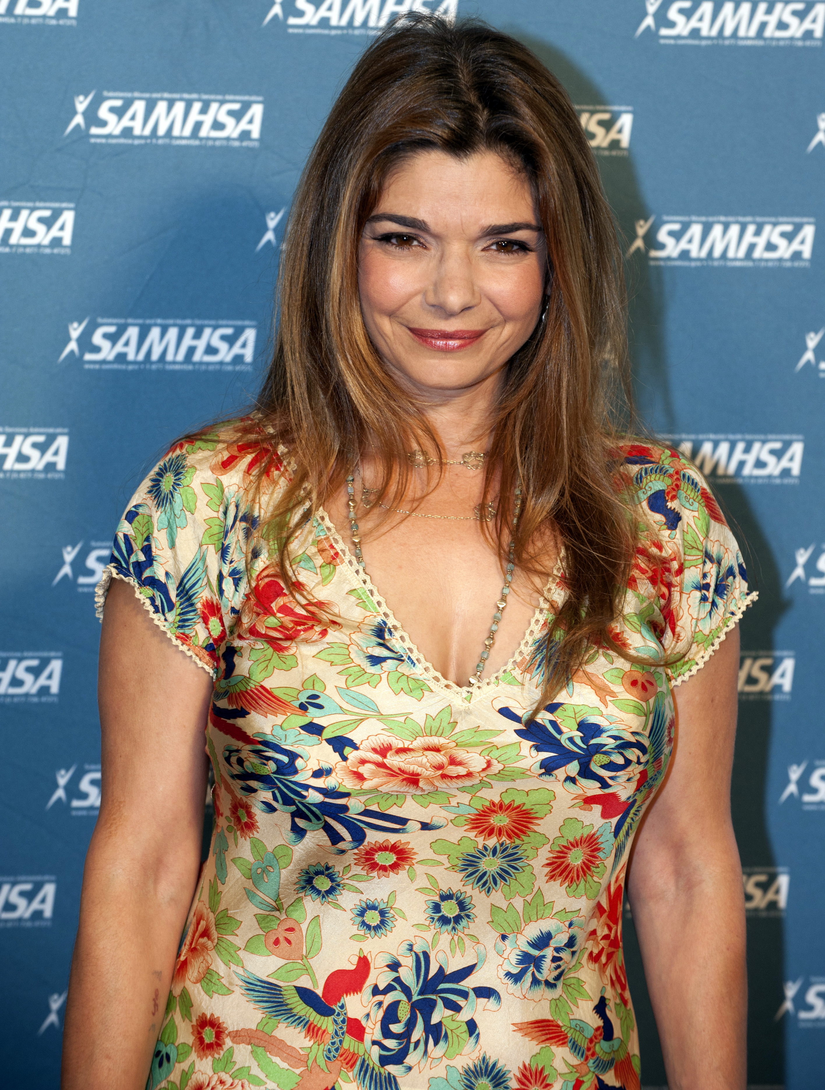 Actress Laura San Giacomo at the 2011 Voice Awards in Paramount Studios, Hollywood, California, USA.[1]